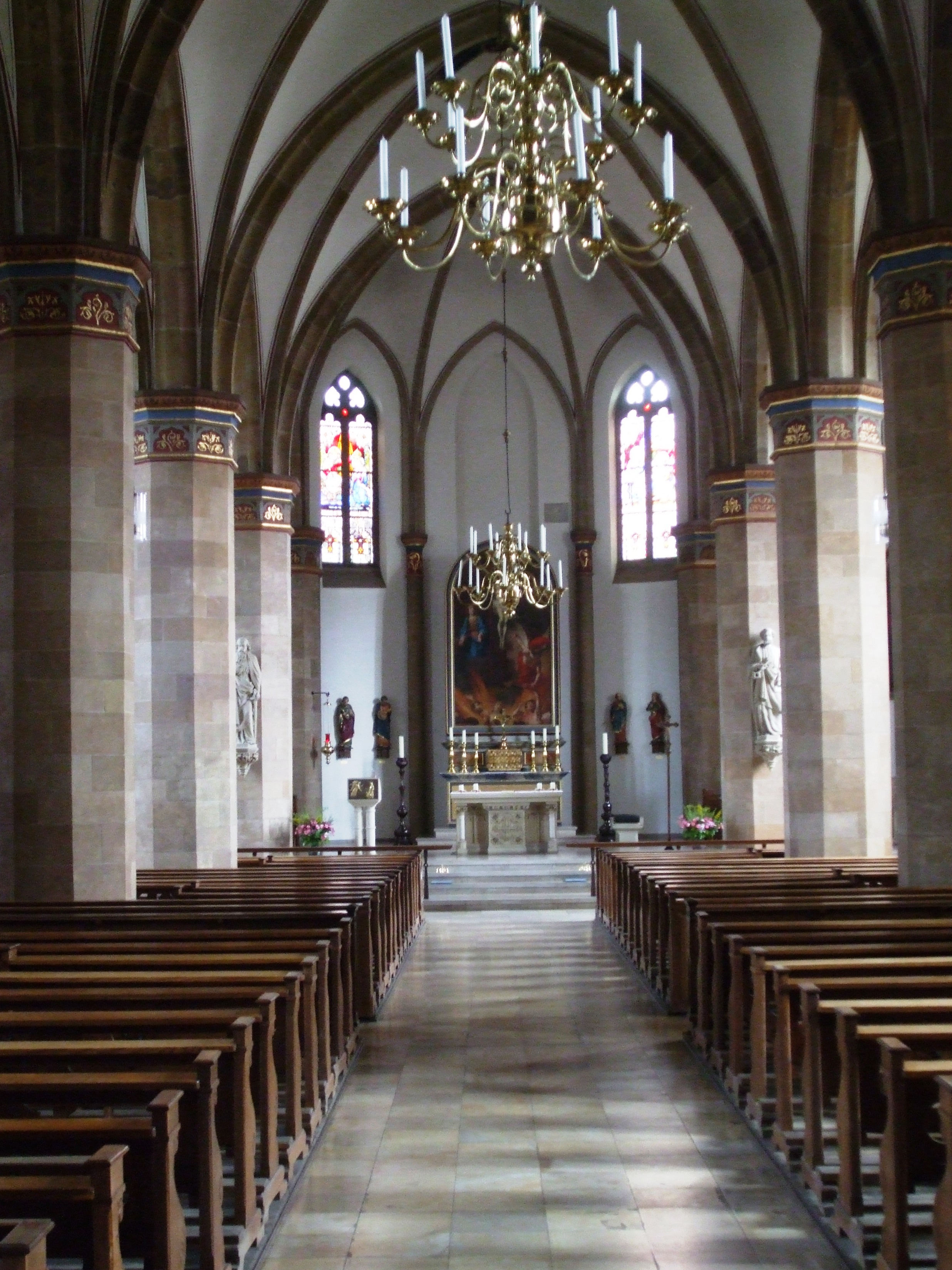 St. Mariä Himmelfahrt Füchtorf